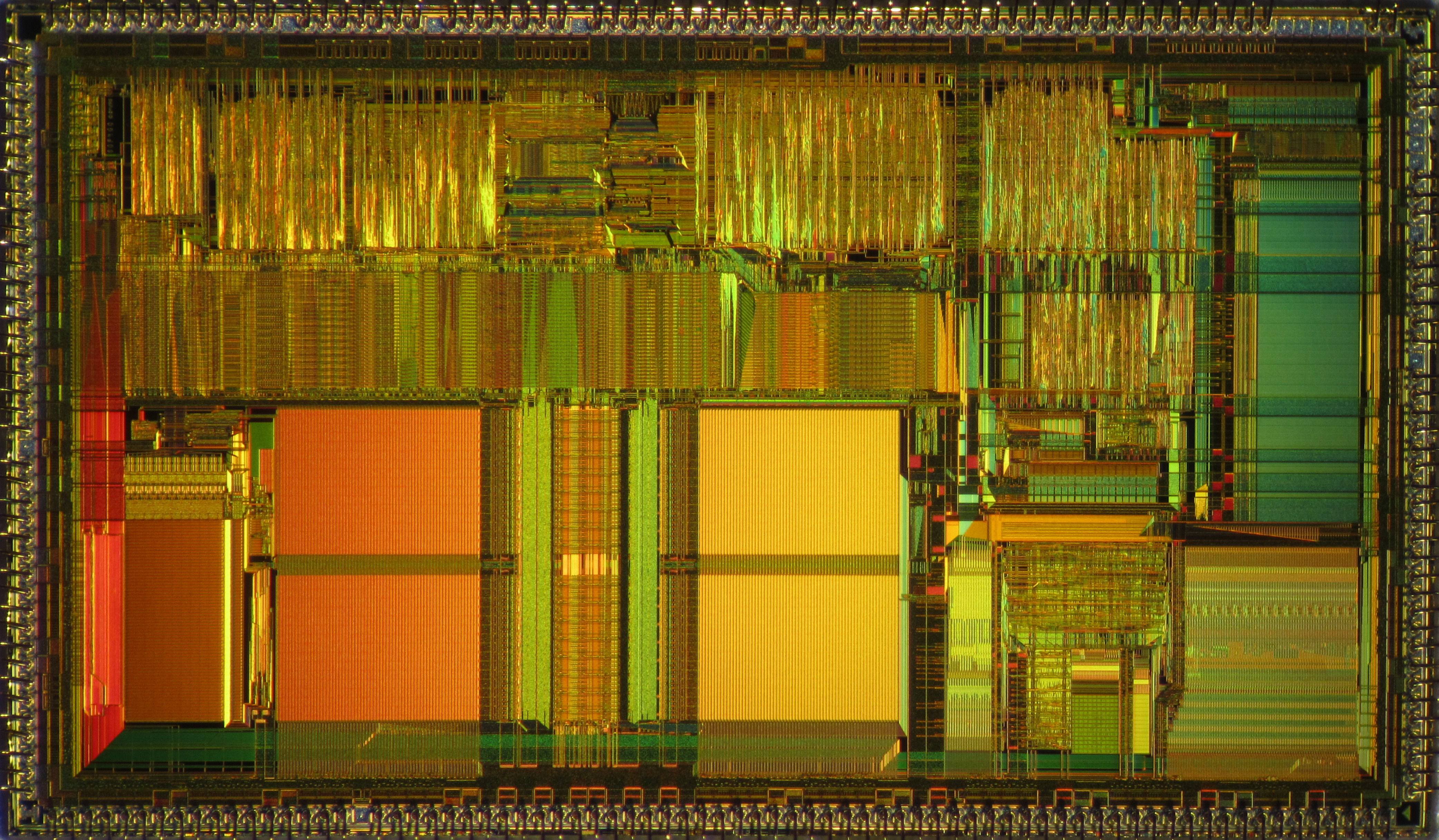 Die shot of Intel 80486 DX2-66 microprocessor (SX750).